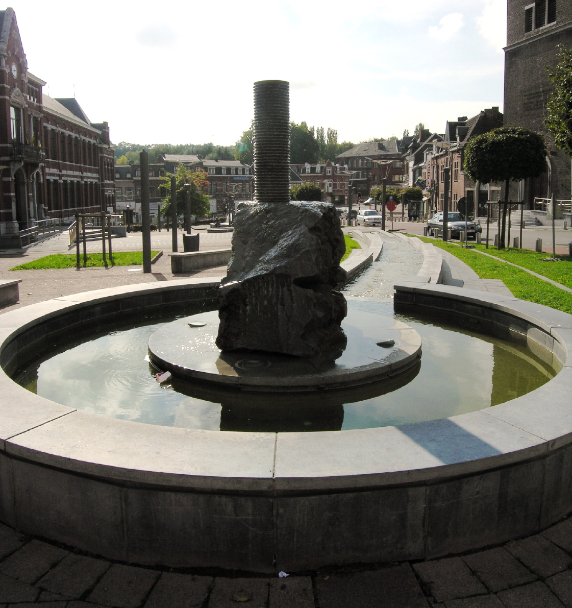 the river Légia a Ans